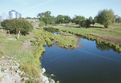 Photograph by Tim Kiser. The Elk River in Benton County, Minnesota, 21 August 2004.